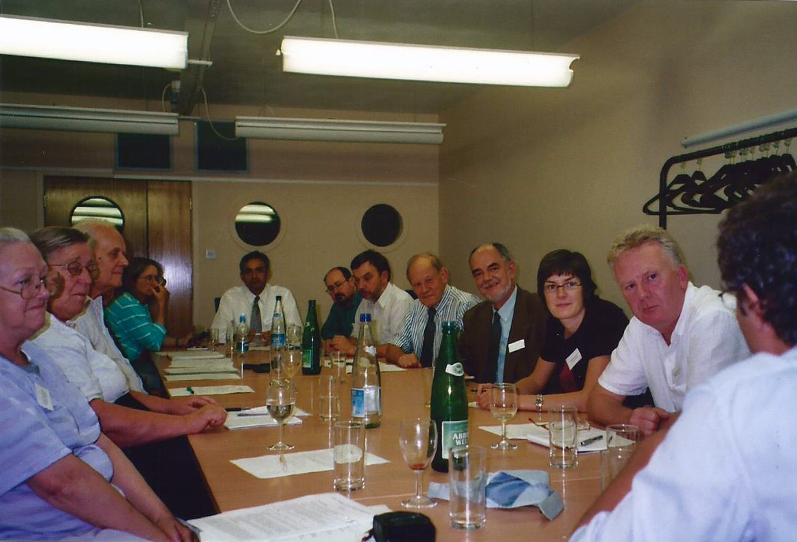 A meeting of the European Council for Skeptical Organisations in London, 2003. Pictured, left to right: Marie Prins, ?, Cornelis de Jager?, ?, Amardeo Sarma, Martin Mahner, Tim Trachet, Paul Kurtz, Wim Betz, ?, Marcel Hulspas?, Chris French?.